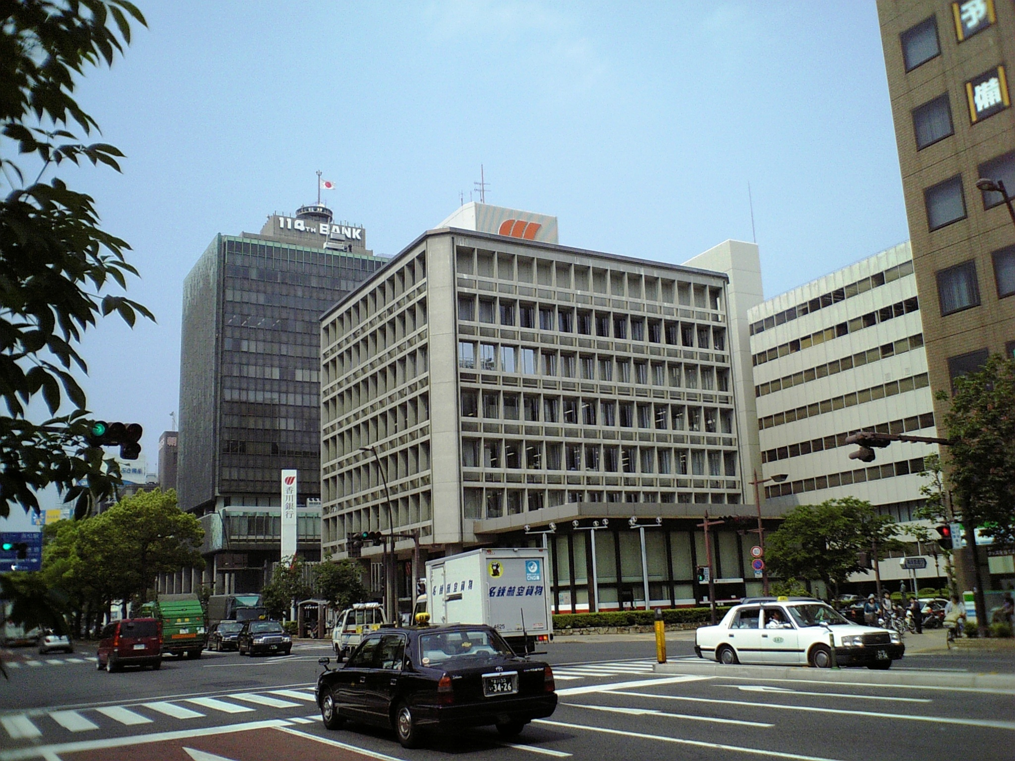 the 114th bank and the Kagawa bank, Takamatsu City, Kagawa Prefecture, Japan.